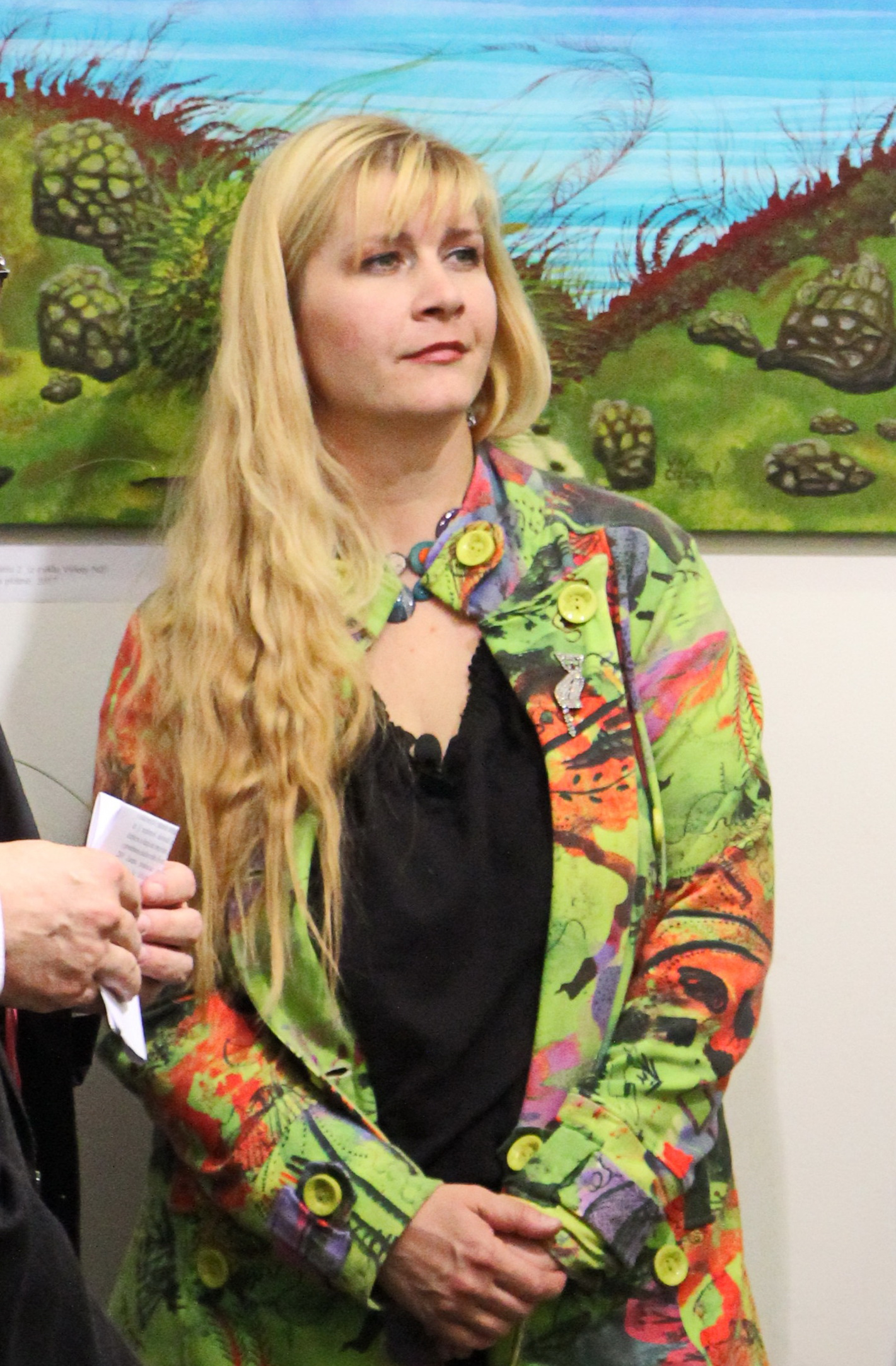 Painter and sculptor Zuzana Čížková at opening of her exhibition in Prague in October 2017